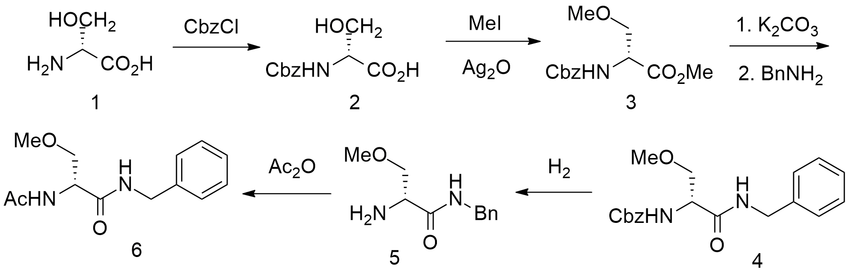 J.A. McIntyre, J. Castaner, Drugs Future 29, 992 (2004).